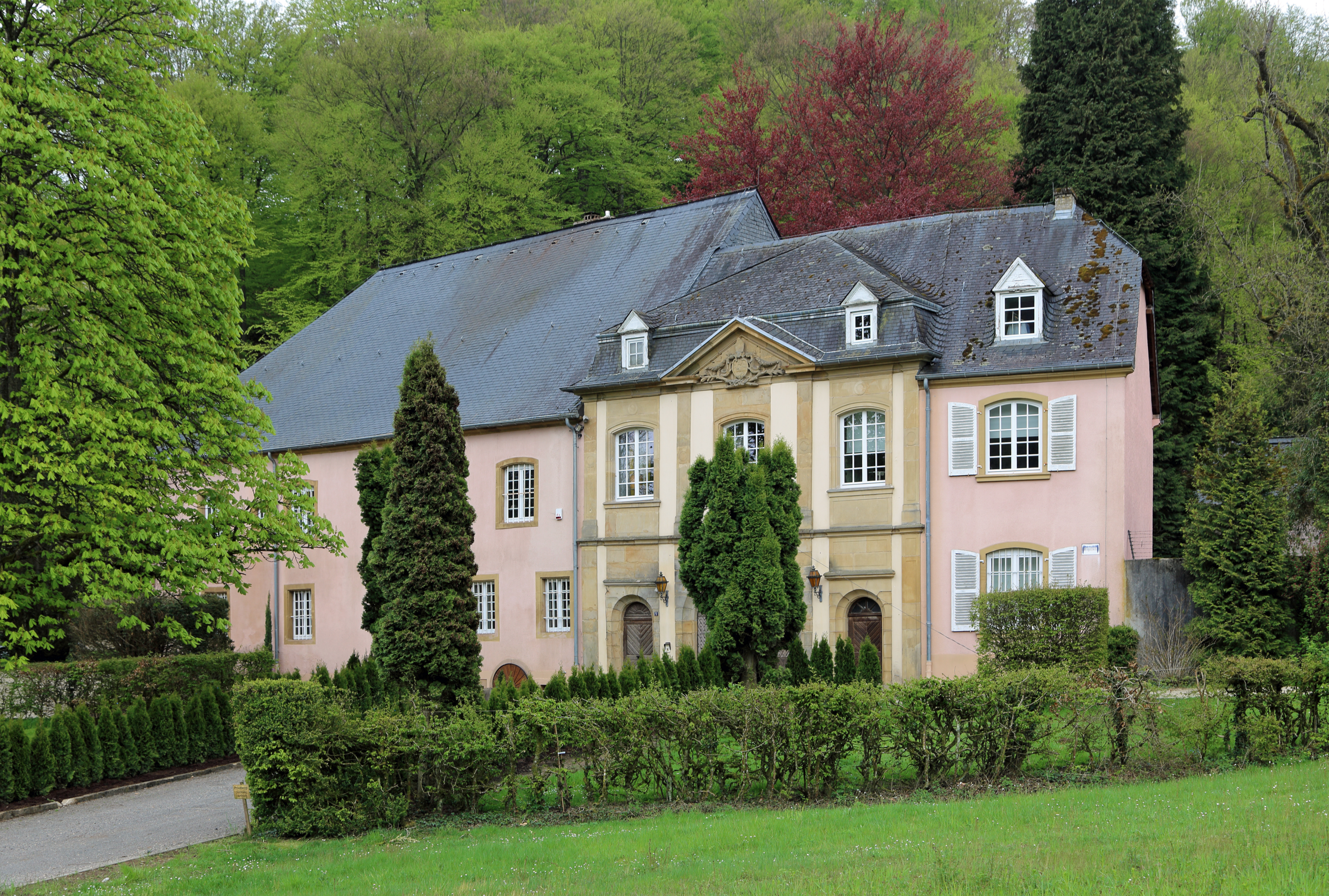 Lauterborn (municipality of Echternach, Grand Duchy of Luxembourg): the castle